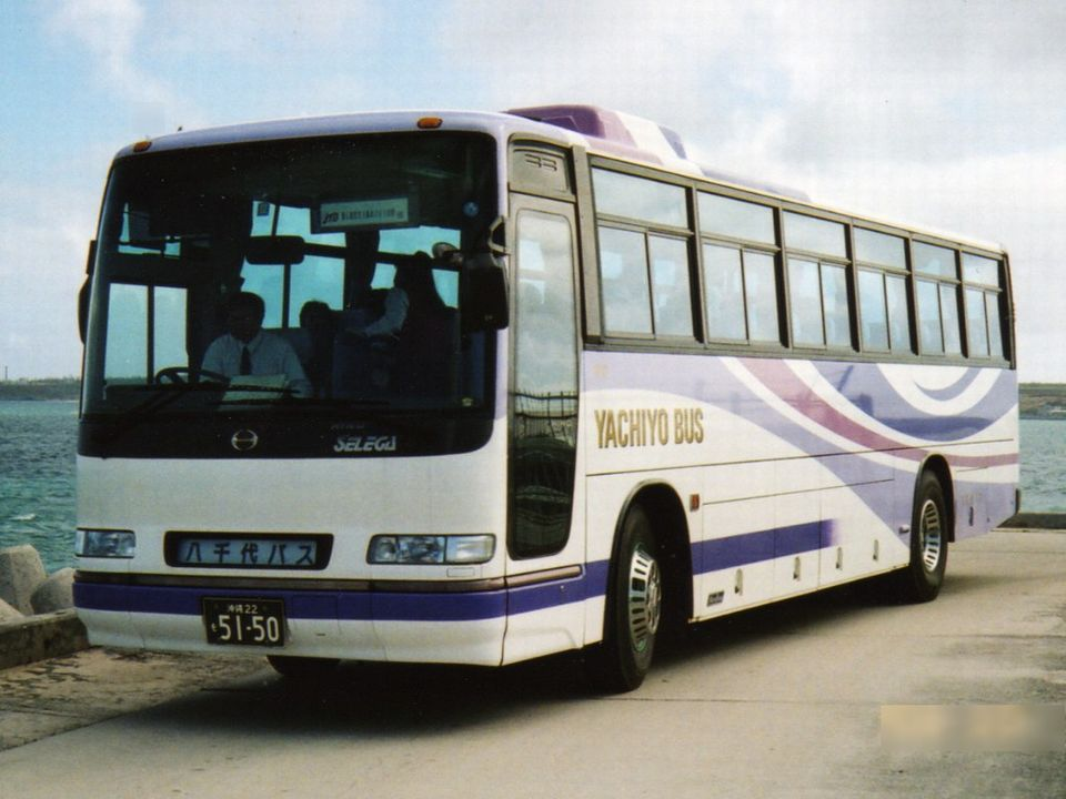 Yachiyo Bus